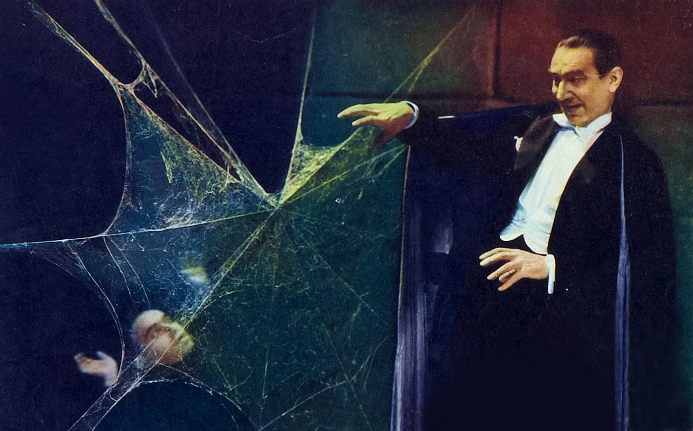 Cropped and edited lobby card for the American movie Spooks Run Wild (Monogram, 1941) featuring Bela Lugosi. As a low budget comedy-thriller, the film allowed Lugosi to parody his most famous role.